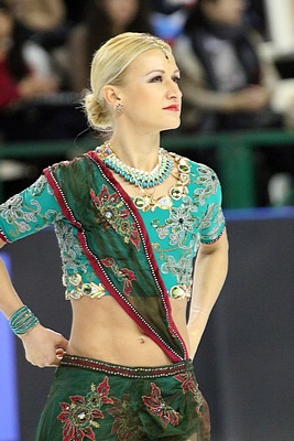 Tatiana Volosozhar at the 2015 Trophée Éric Bompard.